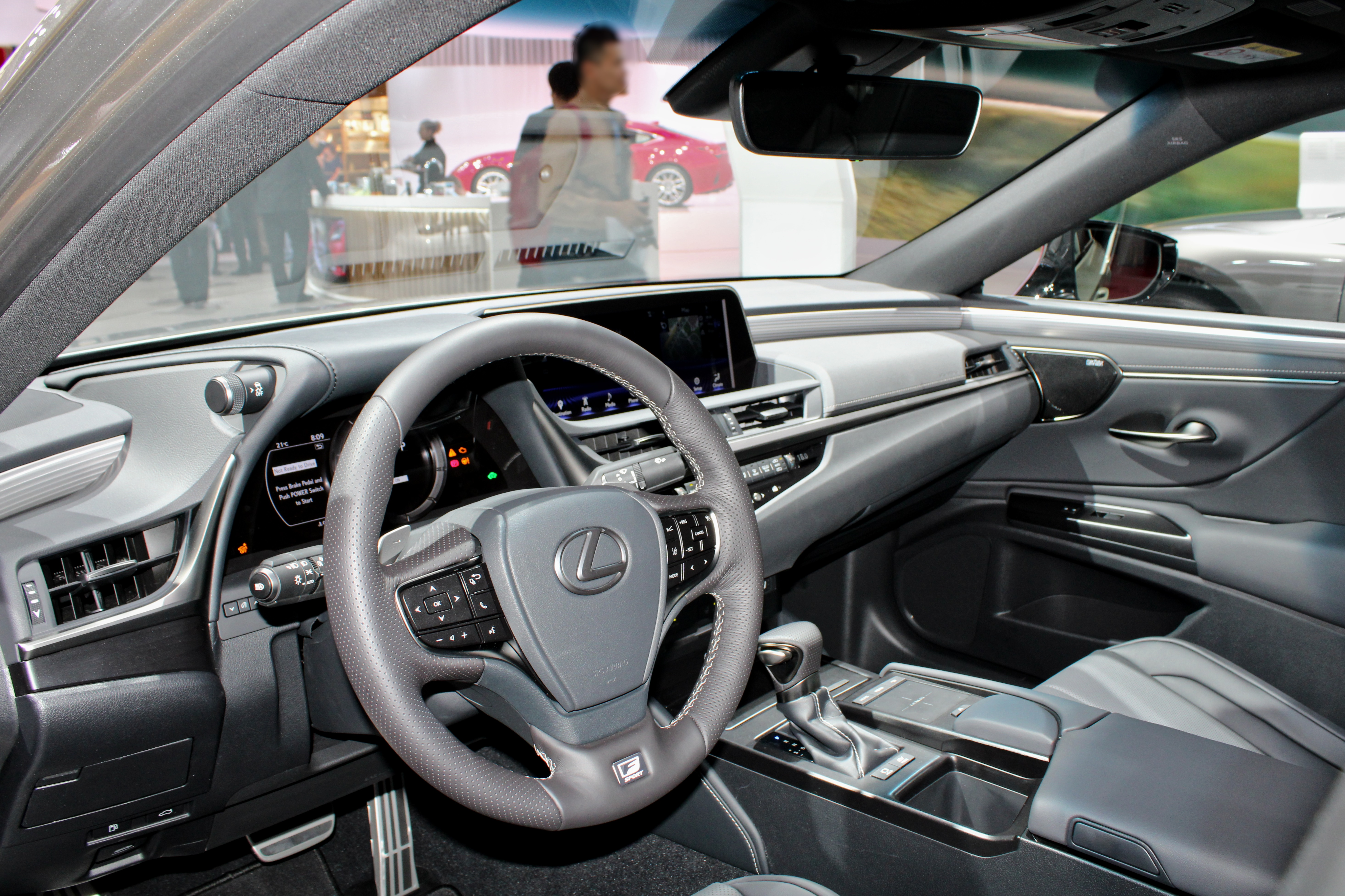 Lexus ES 300h at Paris Motor Show 2018